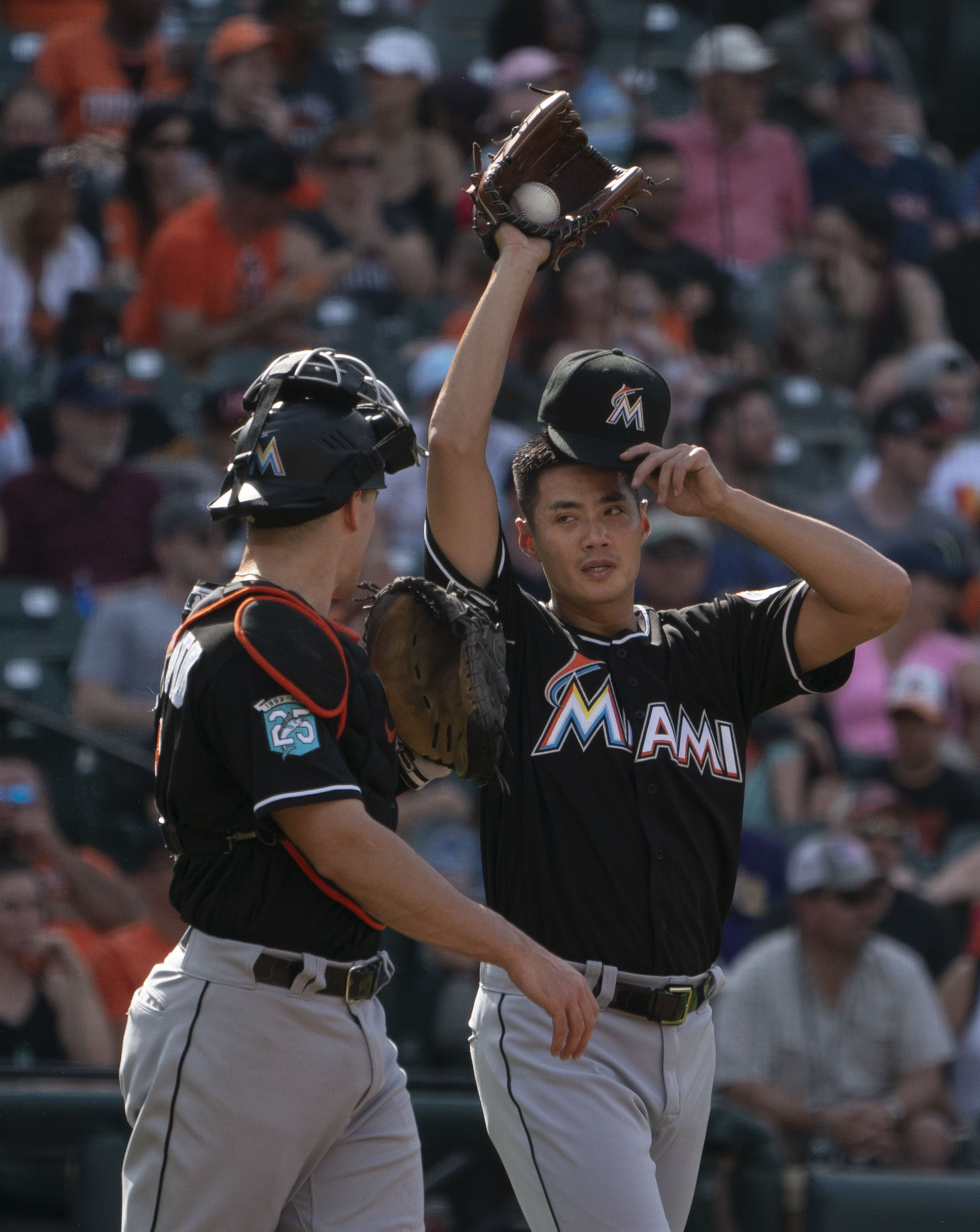 Wei-Yin Chen of the Marlins during their game at the Orioles